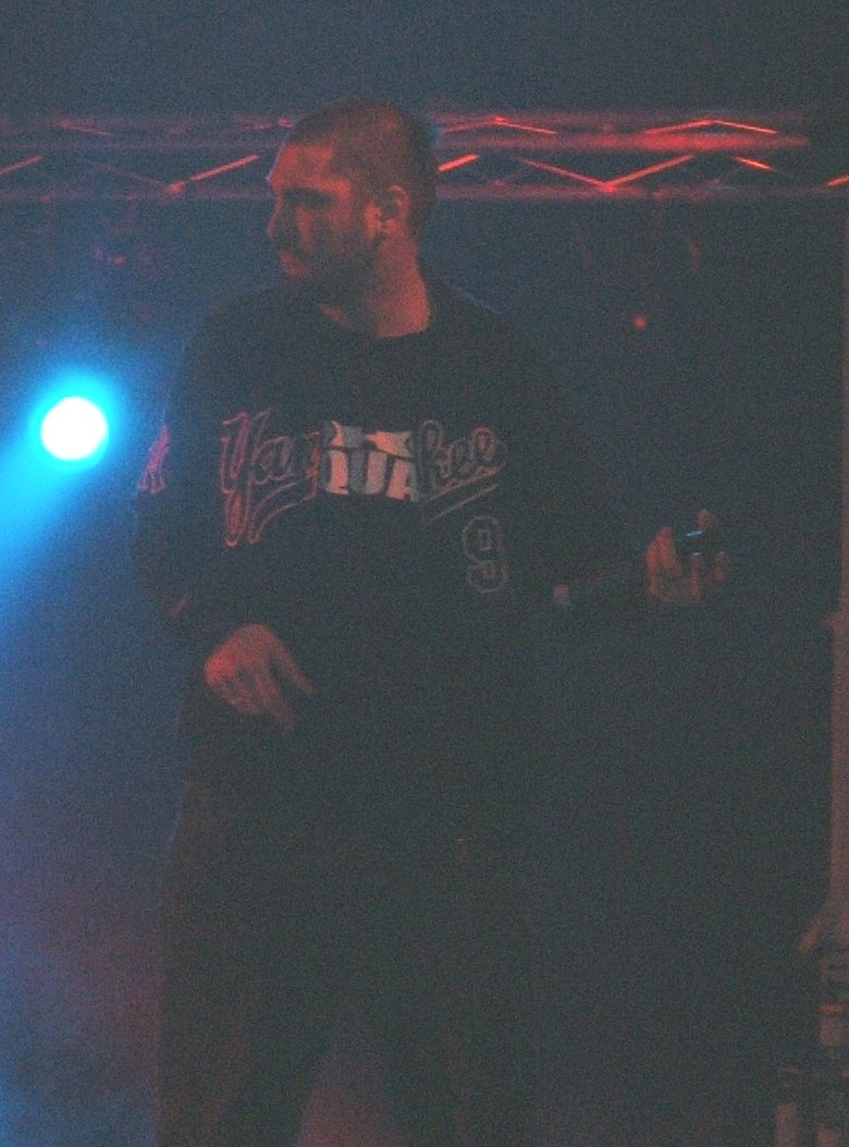 Kase-o is a member of Violadores del verso, a spanish hip-hop group. The picture was taken in Leganés, Madrid (Spain)